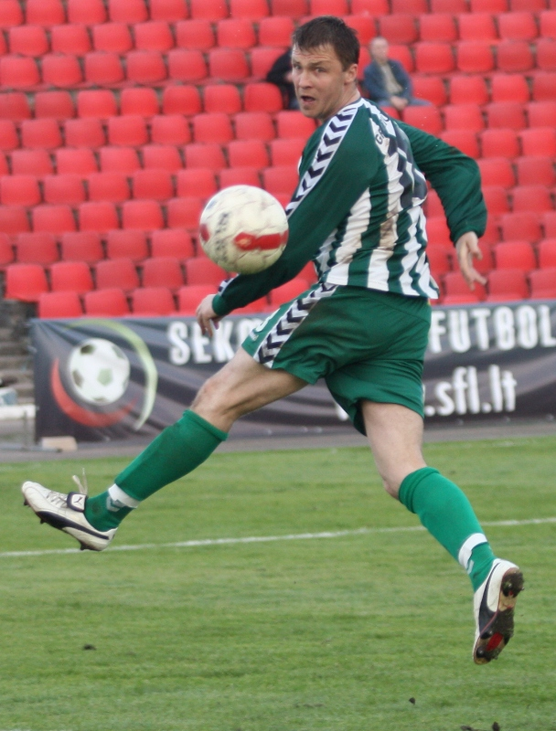 Tadas Gražiūnas playing for Žalgiris Vilnius.